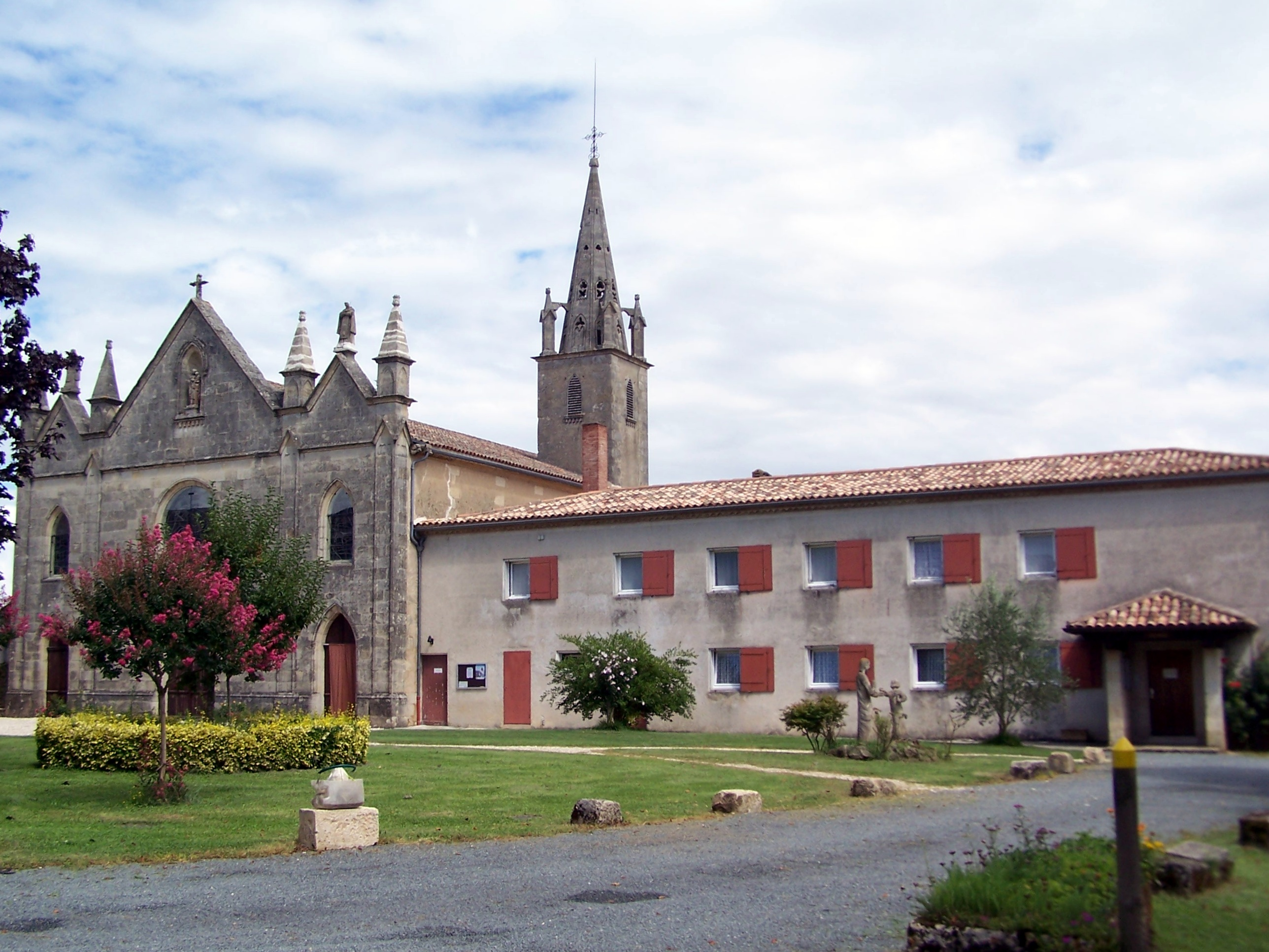 Covent of Broussey in Rions (Gironde, France)